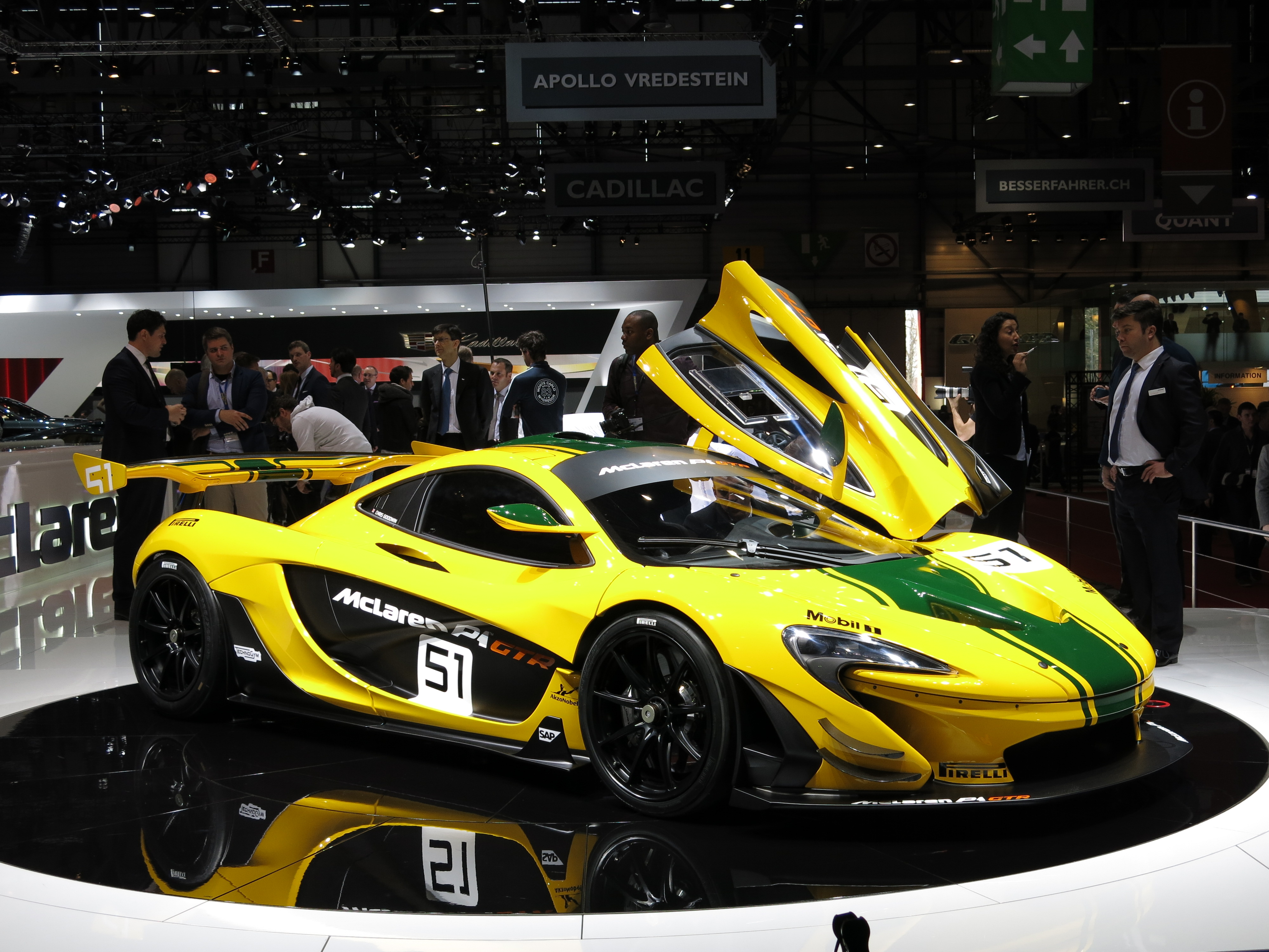 Geneva Motor Show 2015 (photo taken on the first press day)